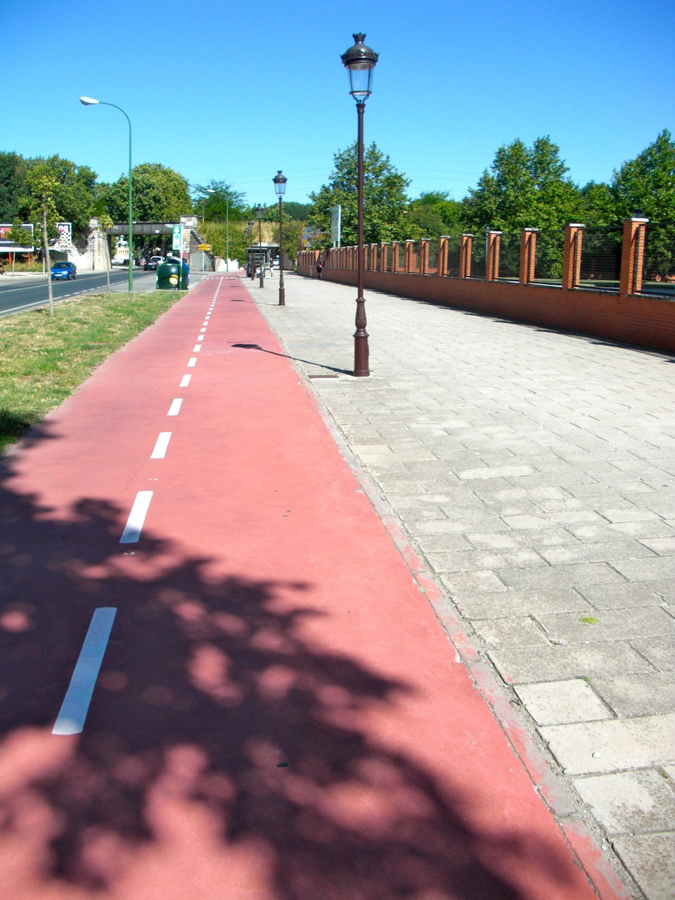 Burgos bike paths at the University of Burgos